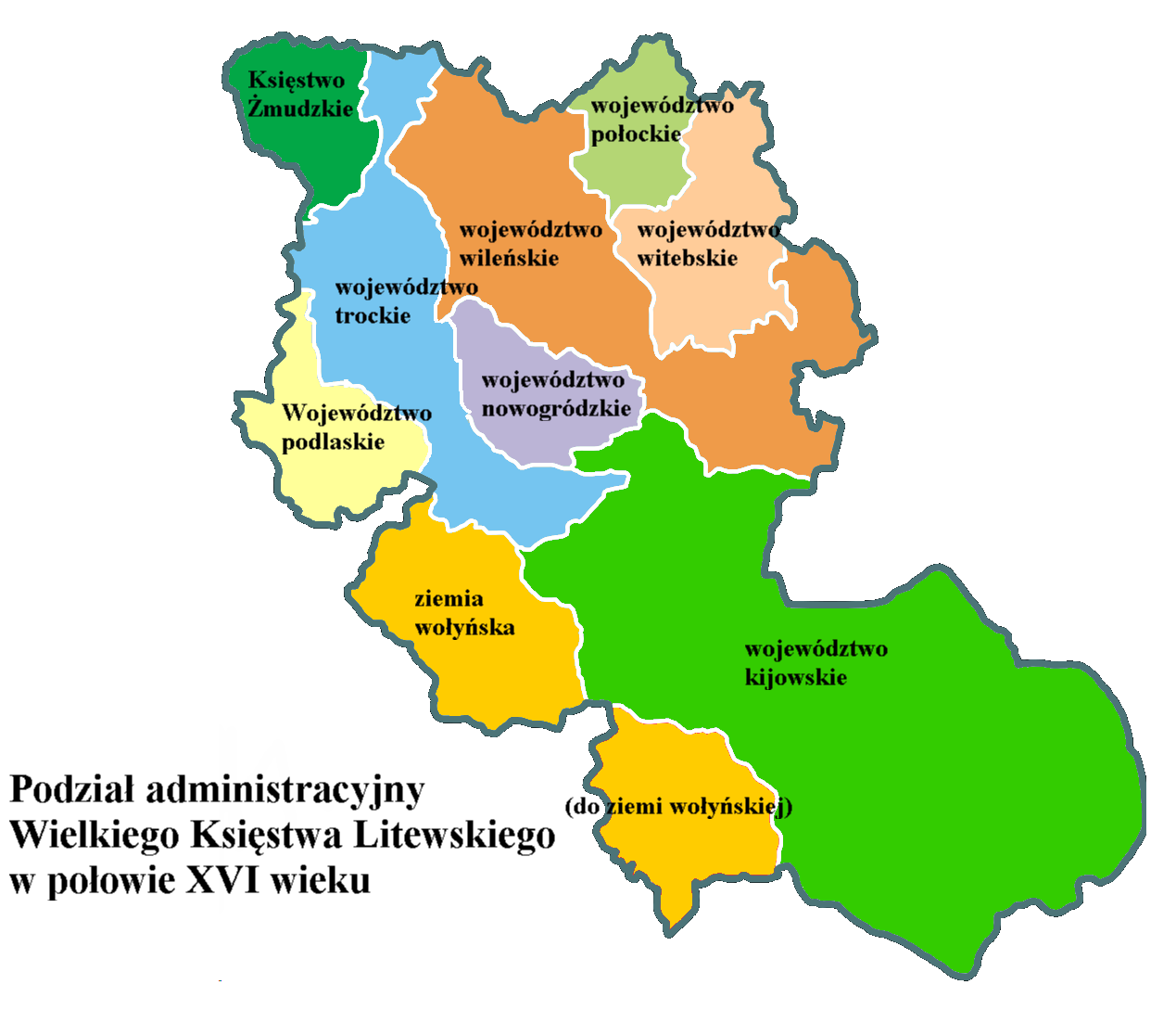 Administrative division of the Grand Duchy of Lithuania in half of XVI Century